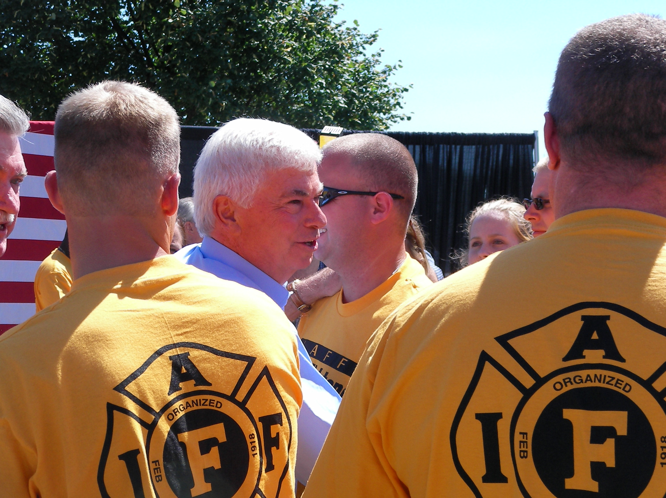 Sen. Chris Dodd, D-Conn., receives the endorsement of the International Association of Fire Fighters at a campaign stop Aug. 30 in West Des Moines.